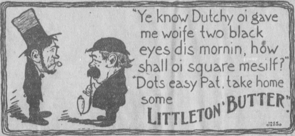 in this 1903 advertisement, an Irish stereotype wants to atone for having given his "woife" two black eyes; a Dutch (or "Deutsch" = German?) stereotype advises that the purchase of Littleton Butter is the solution.